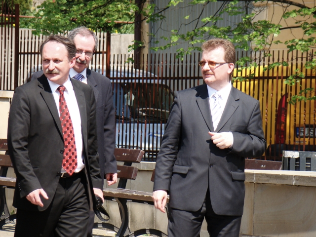 Constitution Day in Sanok